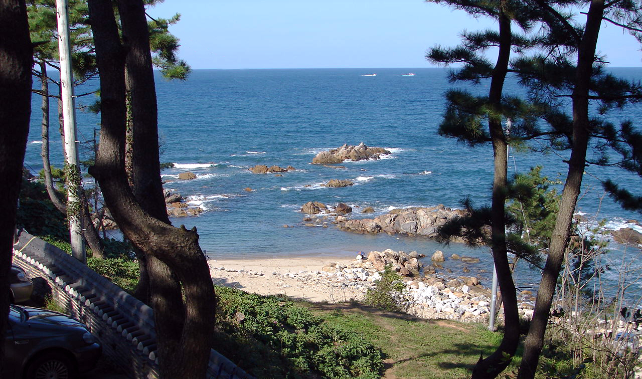 Coast of the East Sea at Naksansa - Naksansa nestles into the side of Naksan Mountain, not far from Sokcho South Korea